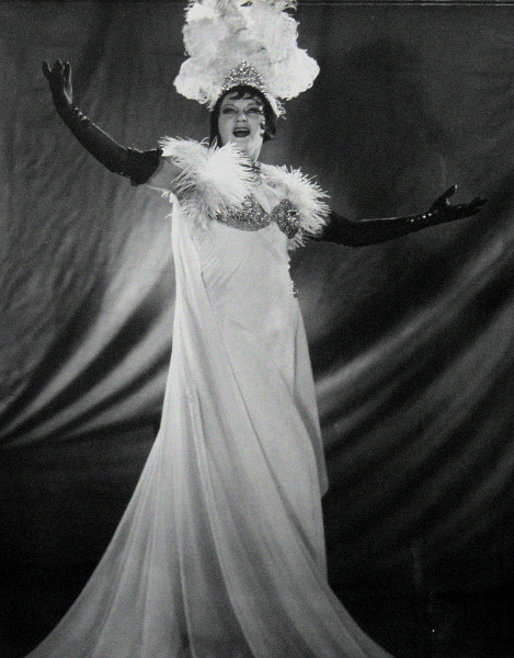 Ljubow Orłowa (Lyubow Orlova) in her creation in "Circus" ("Cyrk"; "Tsirk") movie, 1930s.